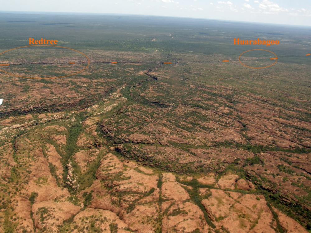 Part of the Westmoreland Uranium field, Queensland, Australia: the picture shows the Redtree-dolerite dyke (broken line) cutting through the Paleoproterozoic Westmoreland conglomerate. Along the dyke are several uranium orebodies, two of them (Redtree and Huarabagoo) are marked in the picture. Although the orebodies are grouped along the dyke, the dolerite is mostly unmineralised while the mineralisation is hosted within the conglomerate.